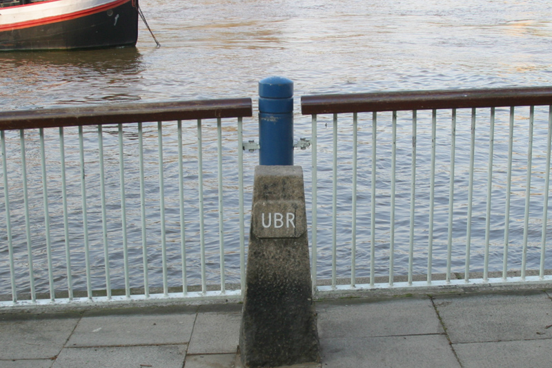 The Boat Race Start Stone. Category:Images of the Boat Race